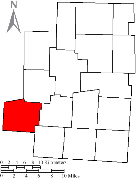 Originally created by the US Census. Modified by myself to highlight the township.